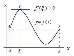 Rolle's theorem